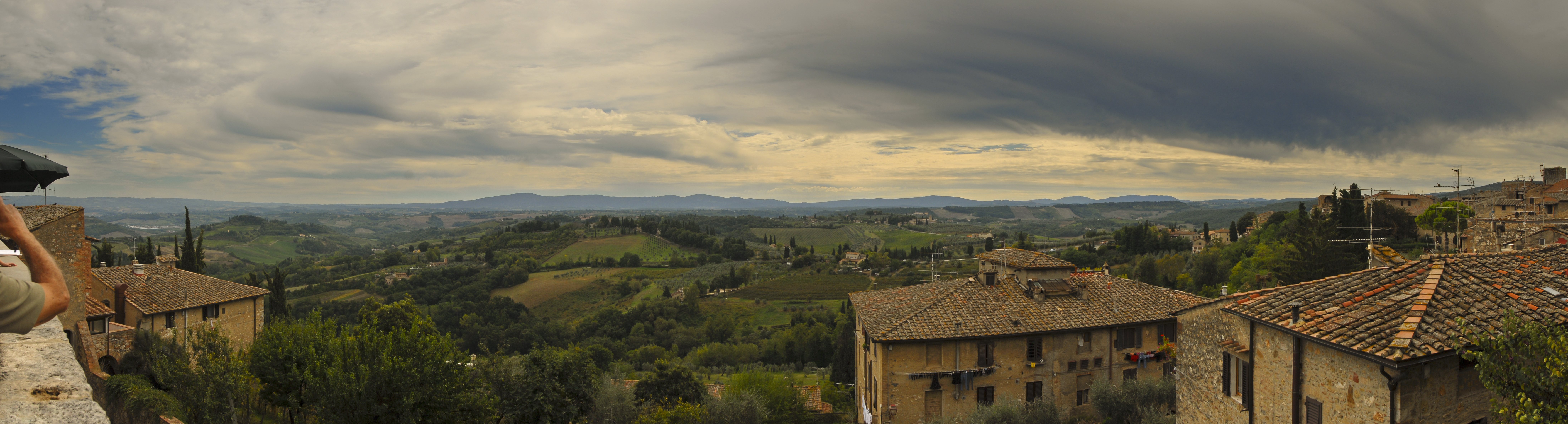 View from San Gimignano to Tuscan Hills